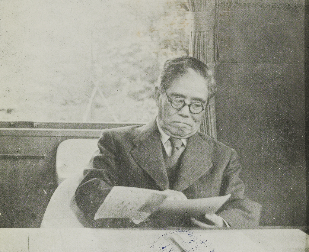 Portrait of Goto Keita (五島慶太, 1882 – 1959)